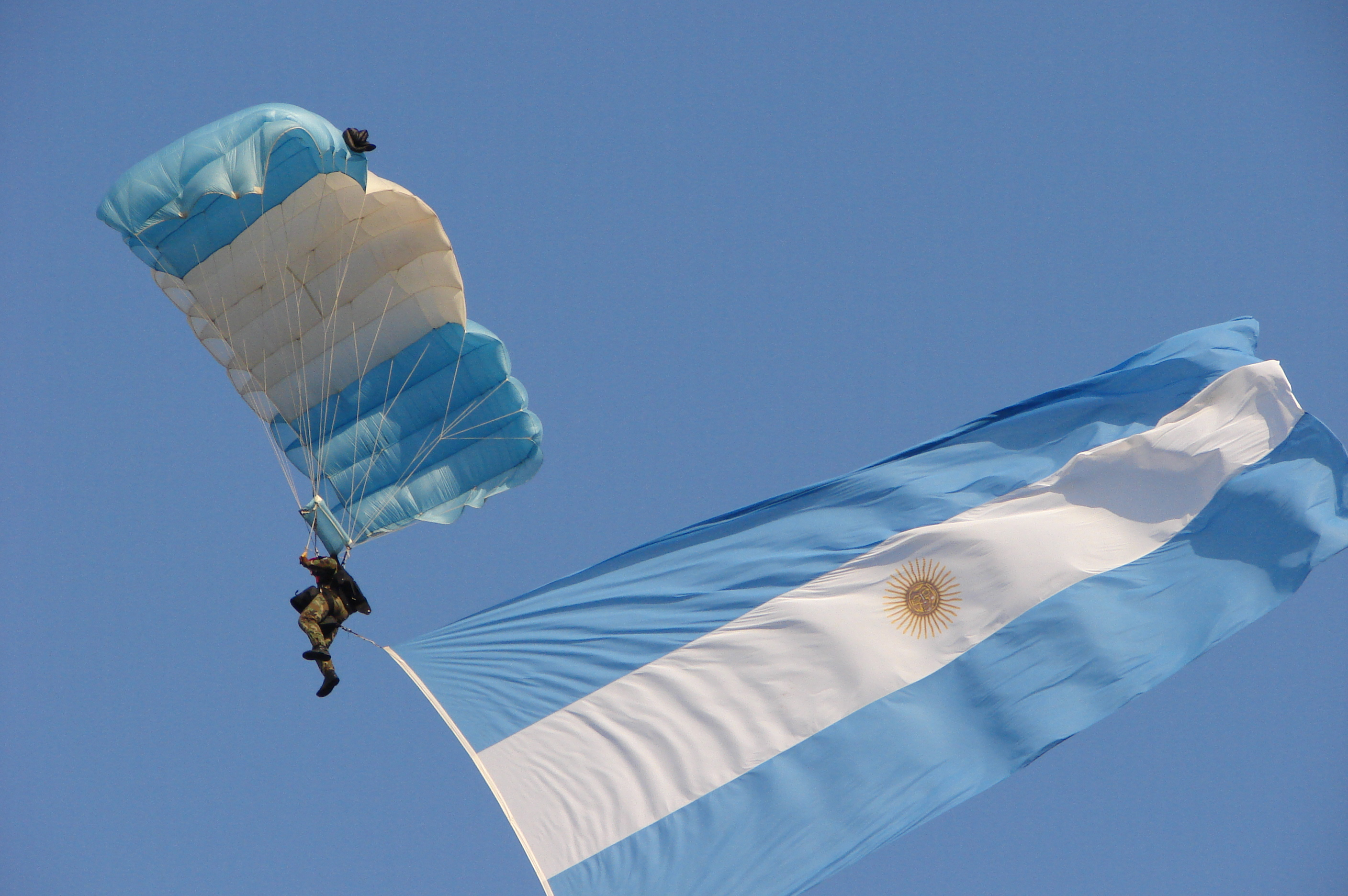 Argentina national holiday